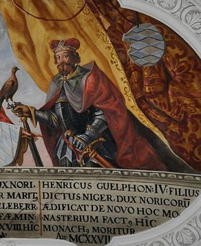 Henry IX black, duke of Bavaria; house of Welf